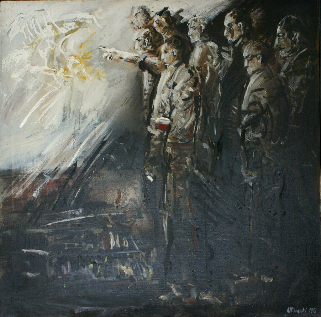 Andrzej Jan Piwarski, Znowu nadzieja. Olej na płótnie, 100 x 100 cm, 1982 r.